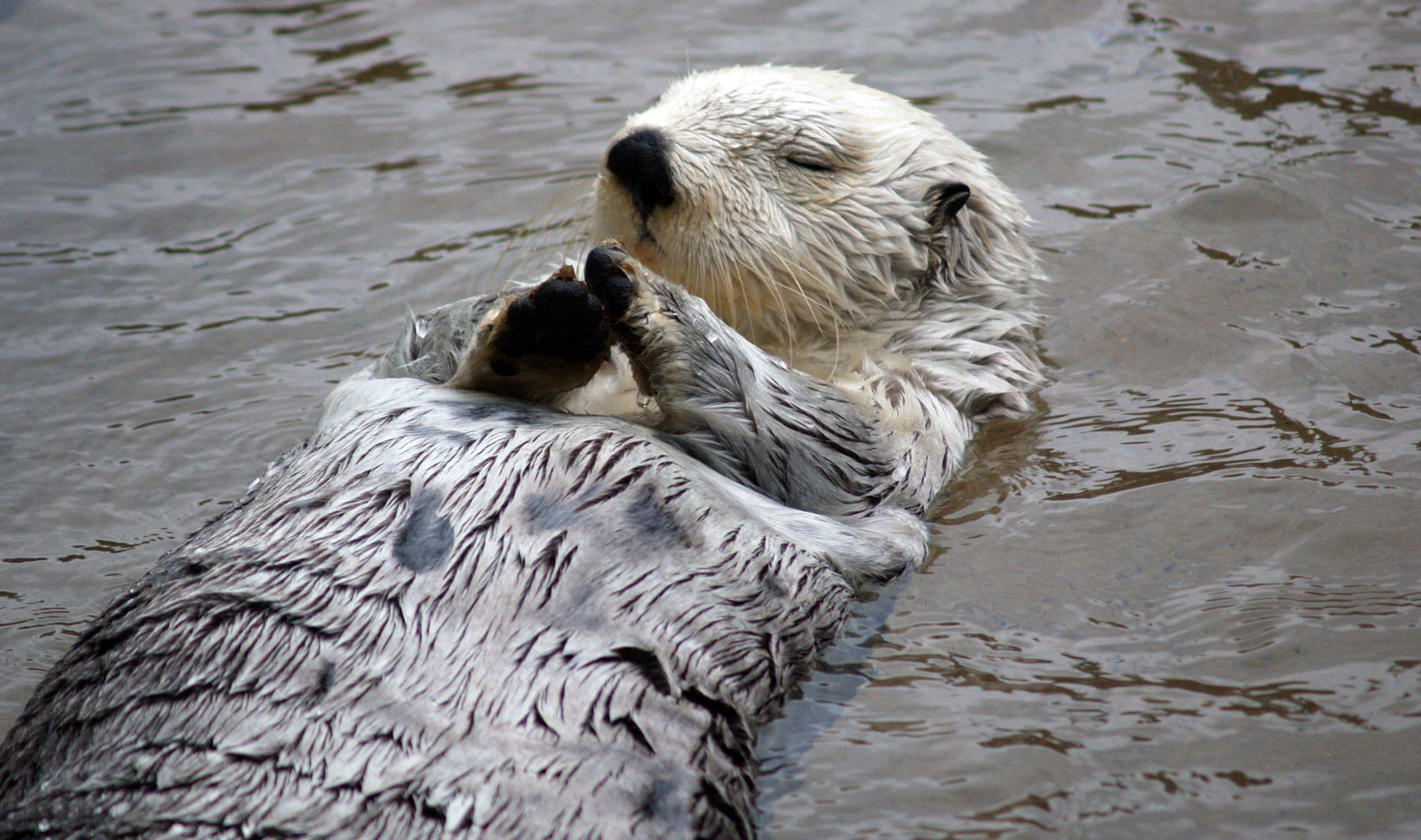 A Sea Otter Floating